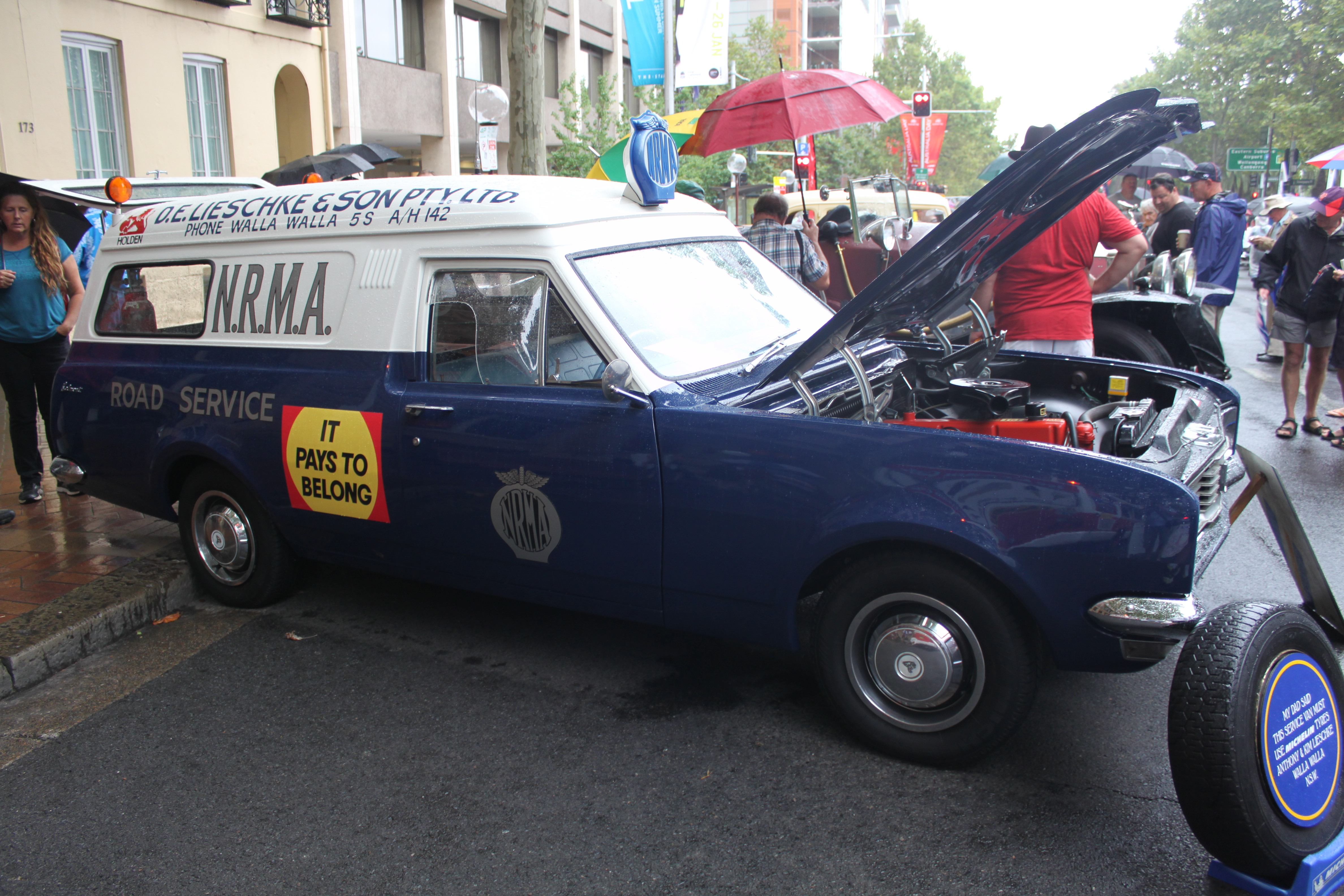 CARnivale, Australia Day, Sydney 2015